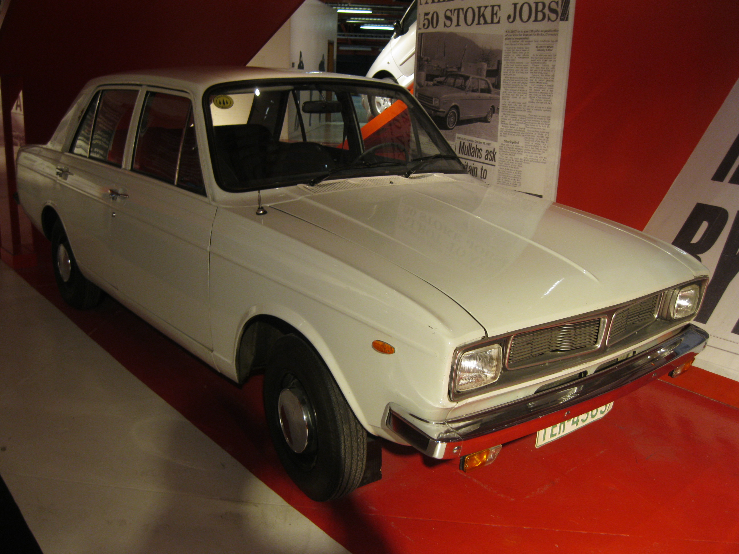 The Paykan was a Hillman Hunter derivative, built in Iran until 2006/7.